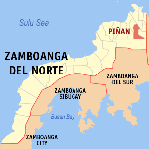 Map of the Zamboanga del Norte showing the location of Pinan